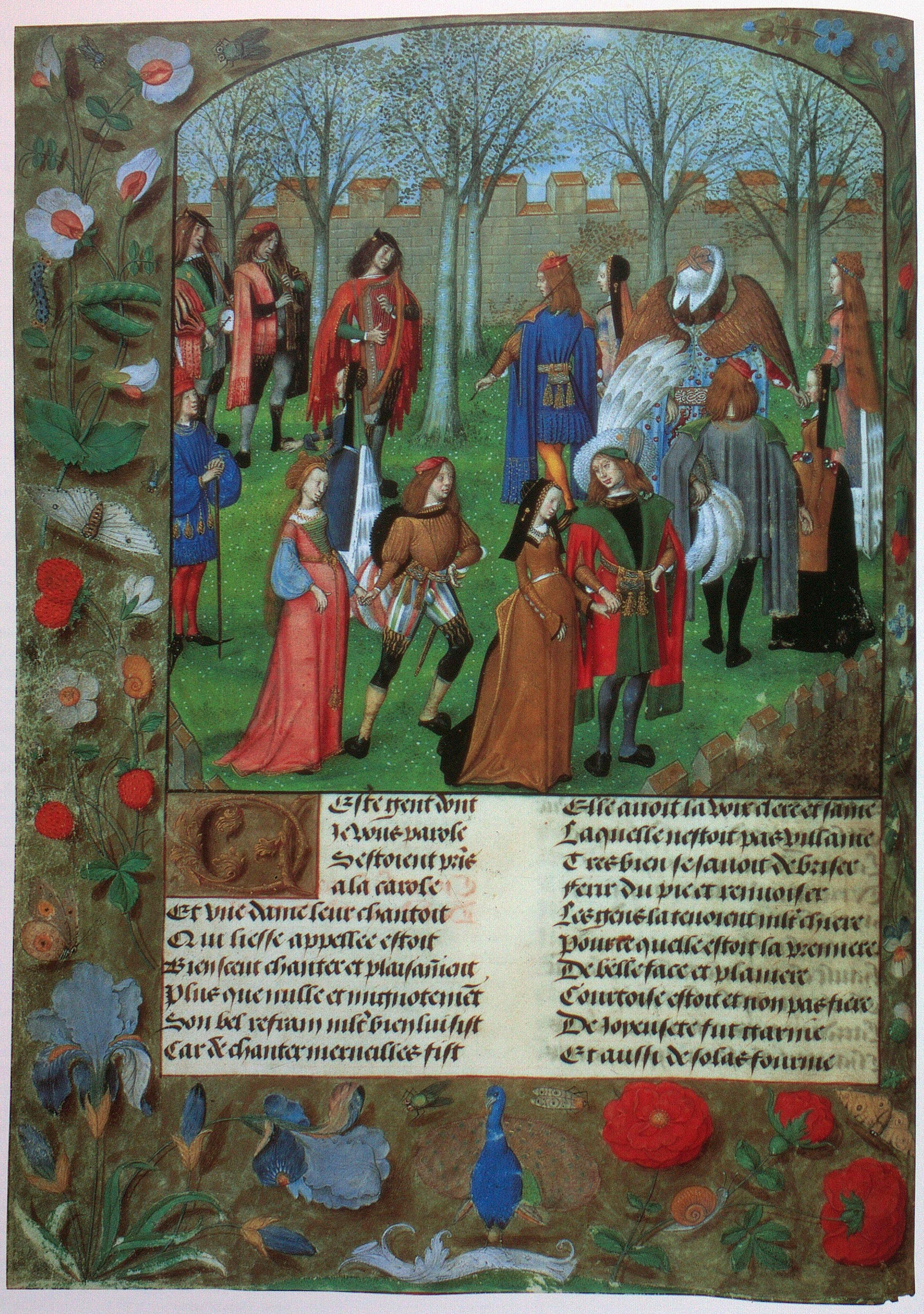 A page of the „Roman de la Rose“ in a manuscript from Flanders: London, British Library, Harley 4425, fol. 14v. The miniature shows a courtly company gathered for a dance.